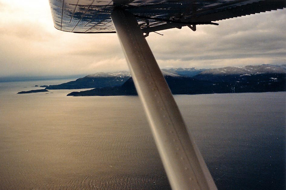 I alone created this image in November, 1991 using a Minox 35 GT camera and Kodacolor 35 mm film. The image shows Wales Island, British Columbia, looking northwards from Portland Inlet.